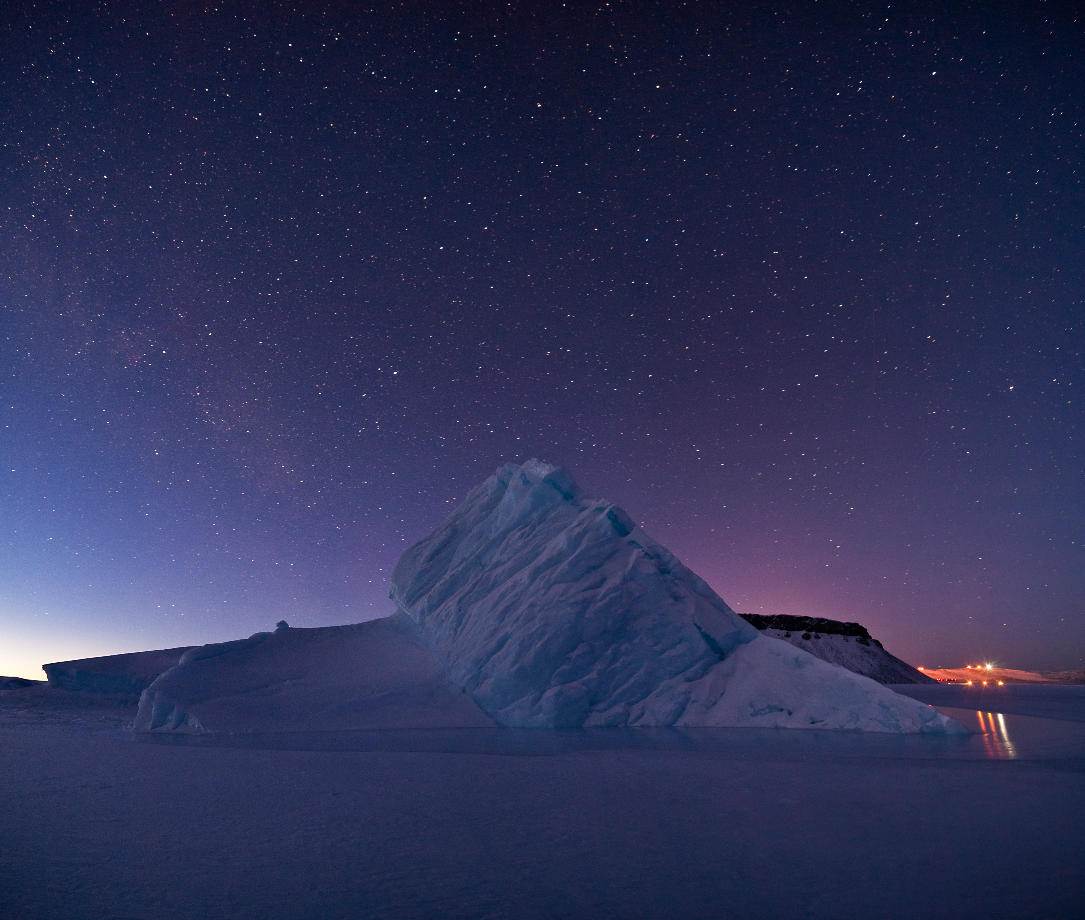 For five years, Jeremy Harbeck has worked as a support scientist for NASA’s Operation IceBridge, an airborne mission to study polar ice. The data processing that he does typically takes place in an office at NASA’s Goddard Space Flight Center in Maryland. However, to speed the process of delivering data to the Arctic sea ice forecasting community, Harbeck traveled to Greenland for the first time in spring 2015. He had just arrived at Greenland’s Thule Air Base on March 20 when a mechanical issue grounded the aircraft. No science flight could happen for a few days. As teams in the United States and Greenland scrambled to locate and deliver a replacement part, researchers on the ground waited. Some of them hiked to what was locally known as “the iceberg.” The unnamed berg pictured above has been frozen in place by sea ice in North Star Bay. Harbeck shot the photograph—a composite of four 49-second images—on March 21 at about 2:30 a.m. local time. The sun never fully sets at this time of year in the Arctic, so sunlight appears on the left side of the image. Lights from Thule are visible on the right side. Look for the Milky Way (top left) and a few very faint meteors visible in the early morning sky. Harbeck left the dock at Thule with sea ice scientist (and current IceBridge project scientist) Nathan Kurtz and a local recreation officer at about 10 p.m. From there, the group hiked 2.4 kilometers (1.5 miles) across the still-thick sea ice in weather that Harbeck called a “pleasant” minus 18 degrees Celsius (0 degrees Fahrenheit). They paused frequently on the way, and they even circled the berg to check for polar bears. “You don’t have a sense of scale of this berg until you get up to it,” Harbeck said. “It’s about the size of my apartment building, and that’s only the part protruding from the water.” Assuming the berg is ungrounded (which is uncertain), about one-tenth of its mass is above water.